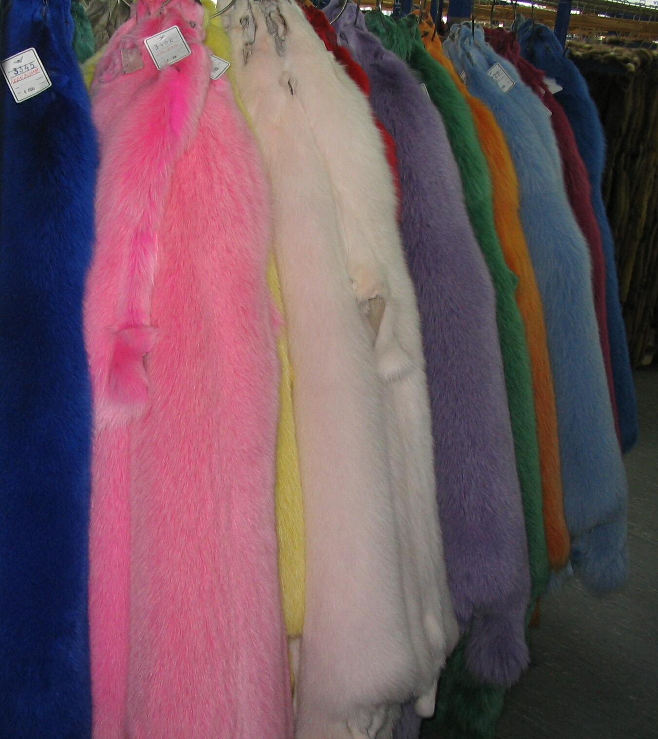 Dyed shadow fox fur skins